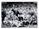 Select football team of Italy -World Football Champion of the year 1938.